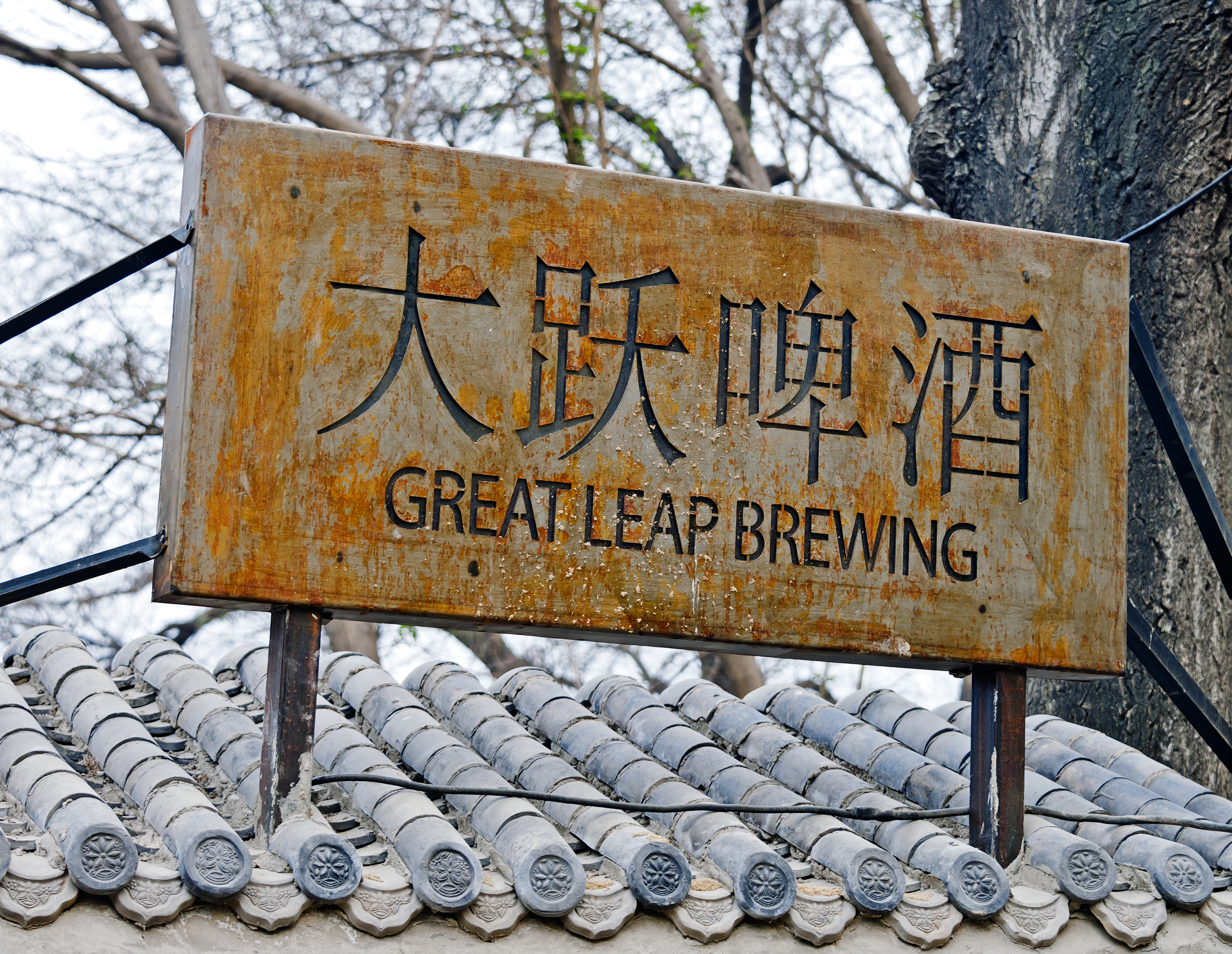 Sign for Great Leap Brewing's original location in the hutong of Beijing's Nanluogoxiang neighborhood